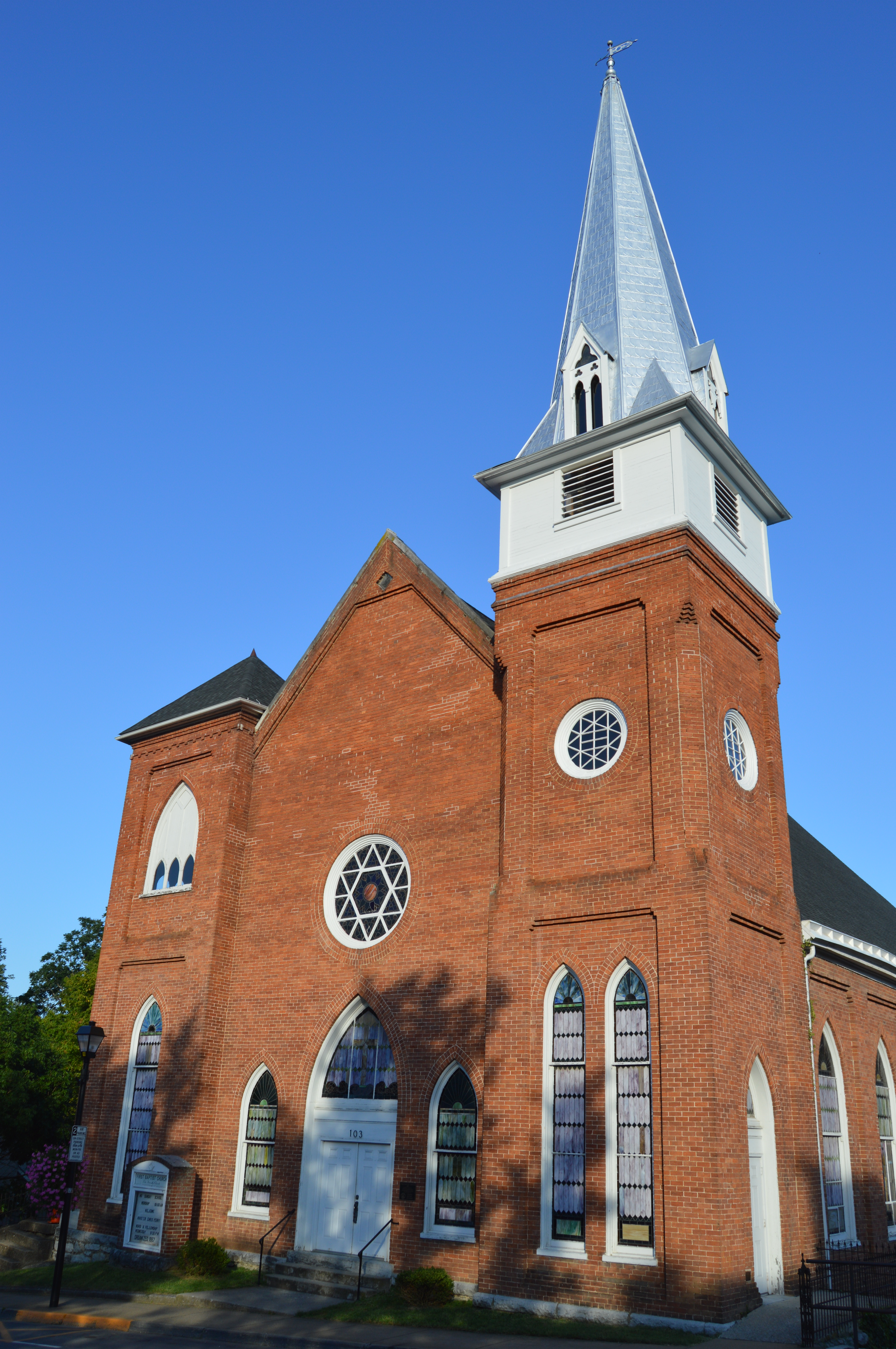 Front of First Baptist Church, located at 103 N. Main Street in Lexington, Virginia, United States. Built in 1896, it is listed on the National Register of Historic Places.